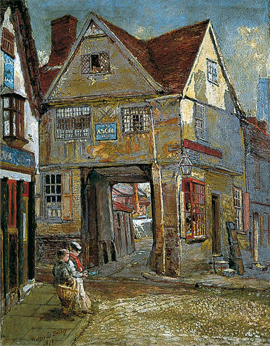 Angel Corner, Ipswich, by Walter Daniel Batley. 1878. Oil on canvas. 59 cm H x 46 cm W. Colchester and Ipswich Museums Service: Ipswich Borough Council Collection